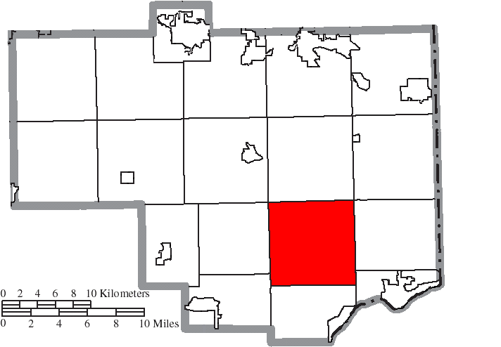 Map of the municipal and township boundaries of Columbiana County, Ohio, United States, as of the 2000 census, with the location of Madison Township highlighted. Township borders are shown only in unincorporated areas in order to differentiate incorporated and unincorporated areas more clearly.